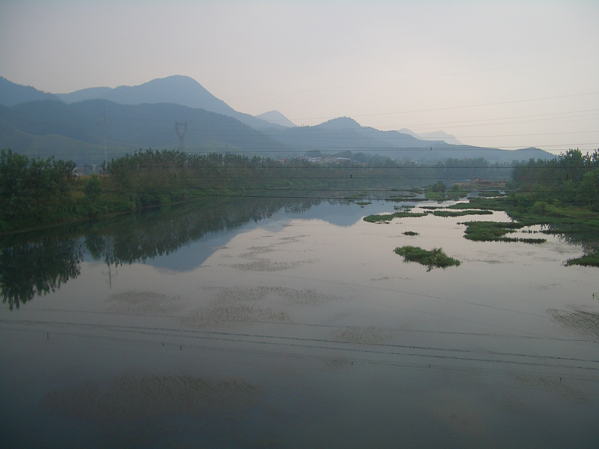 A view of the Fushui (富水) River from the bridge on the National Highway G106/G316 in Yangxin County, Hubei (between Longgang and Futu).